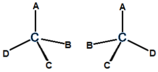 Models of two enantiomers molecules